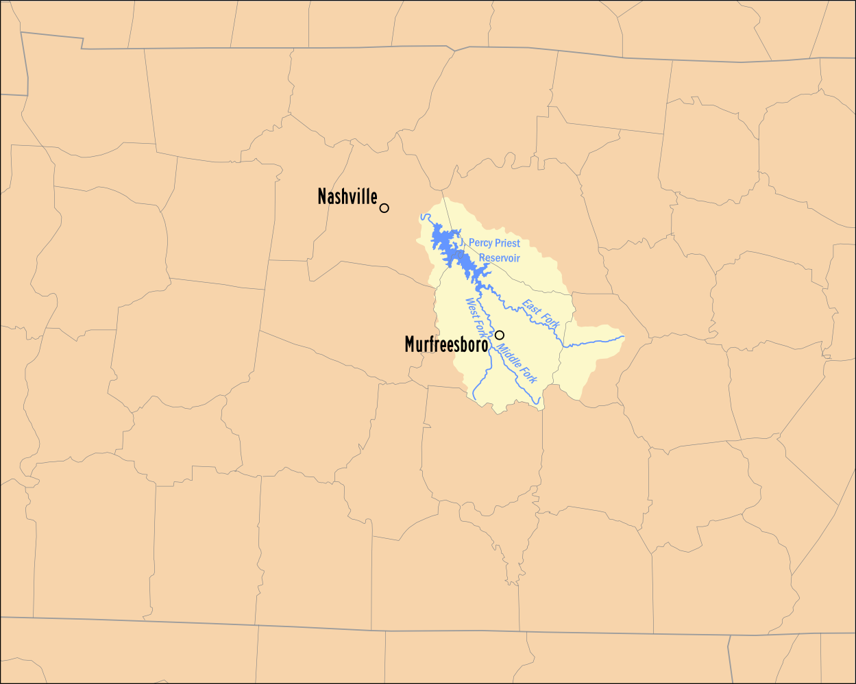 Map of Stones River Watershed (traced over watershed map from TDEC)